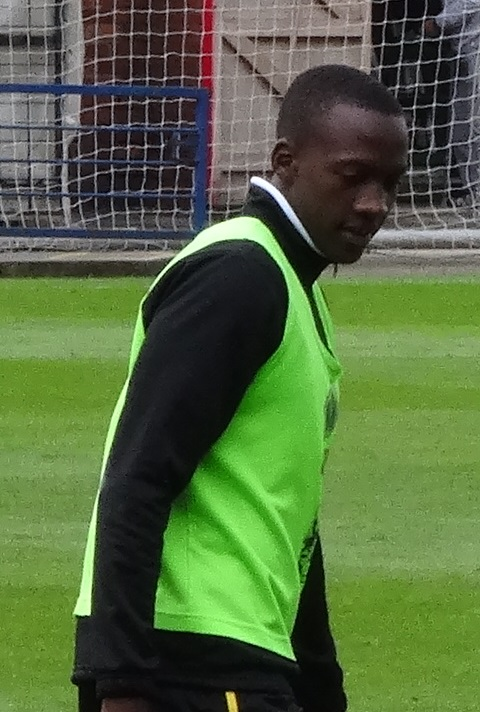 David Moyo warming up for Northampton Town against York City at Bootham Crescent, York on 16 August 2014